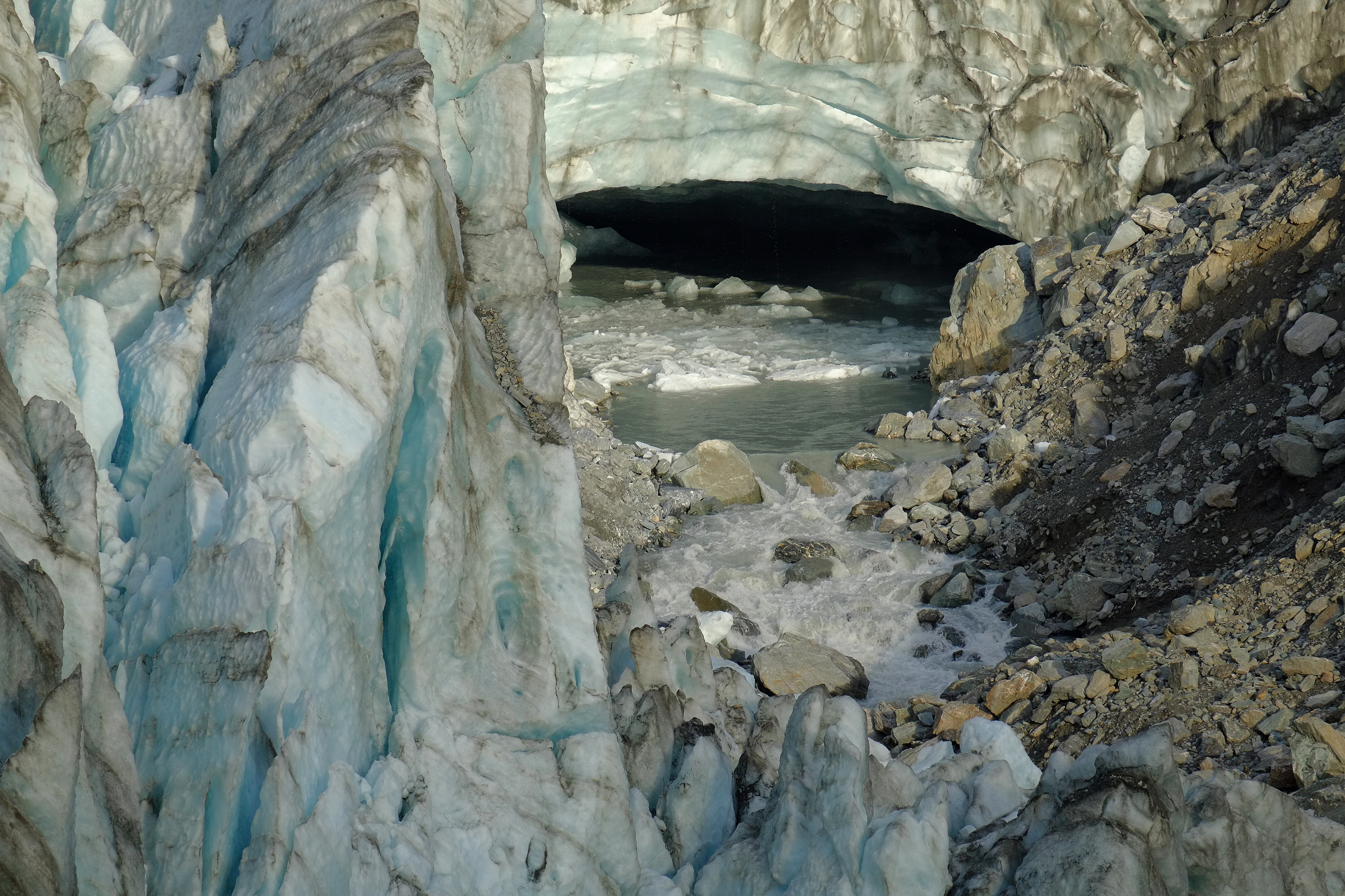 Glacier cave at terminus of Fox Glacier as of 2014